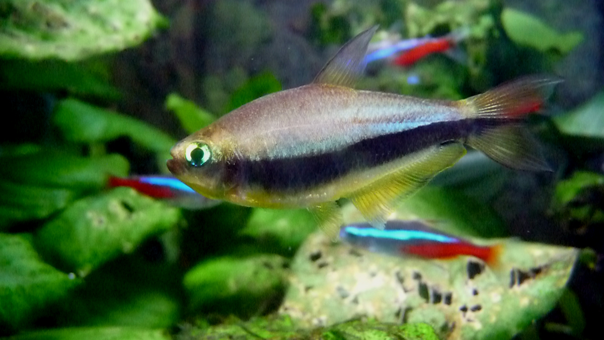 Emperor tetra Nematobrycon palmeri female